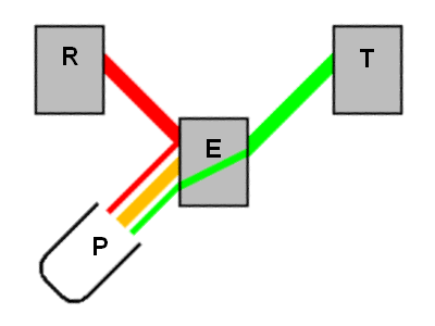 Reflected (R), emitted (E) and transmitted (T) radiation to pyrometer (P).